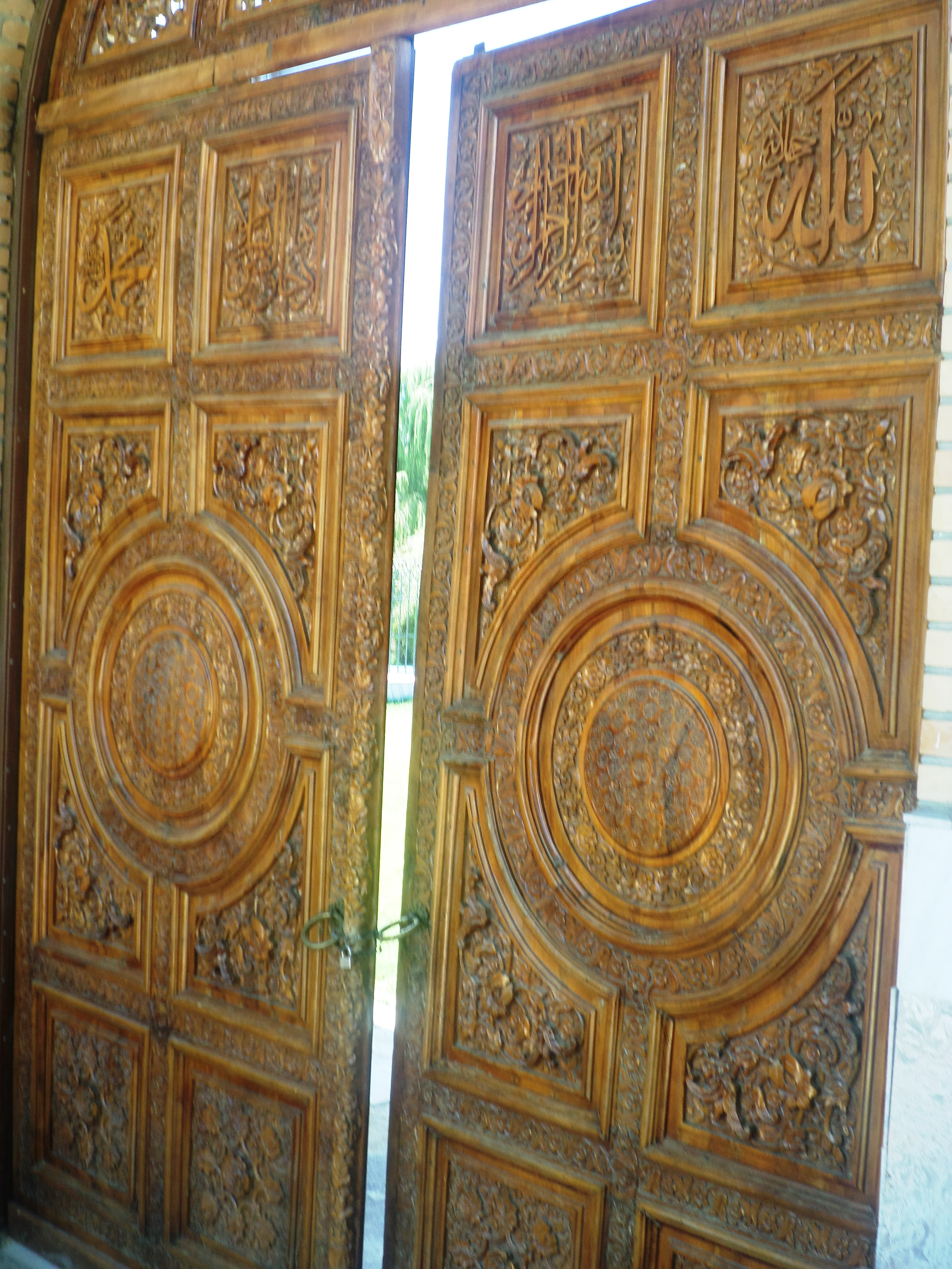 Bukhari Memorial, Samarkand. Hartang village. Construction period 1997-1998